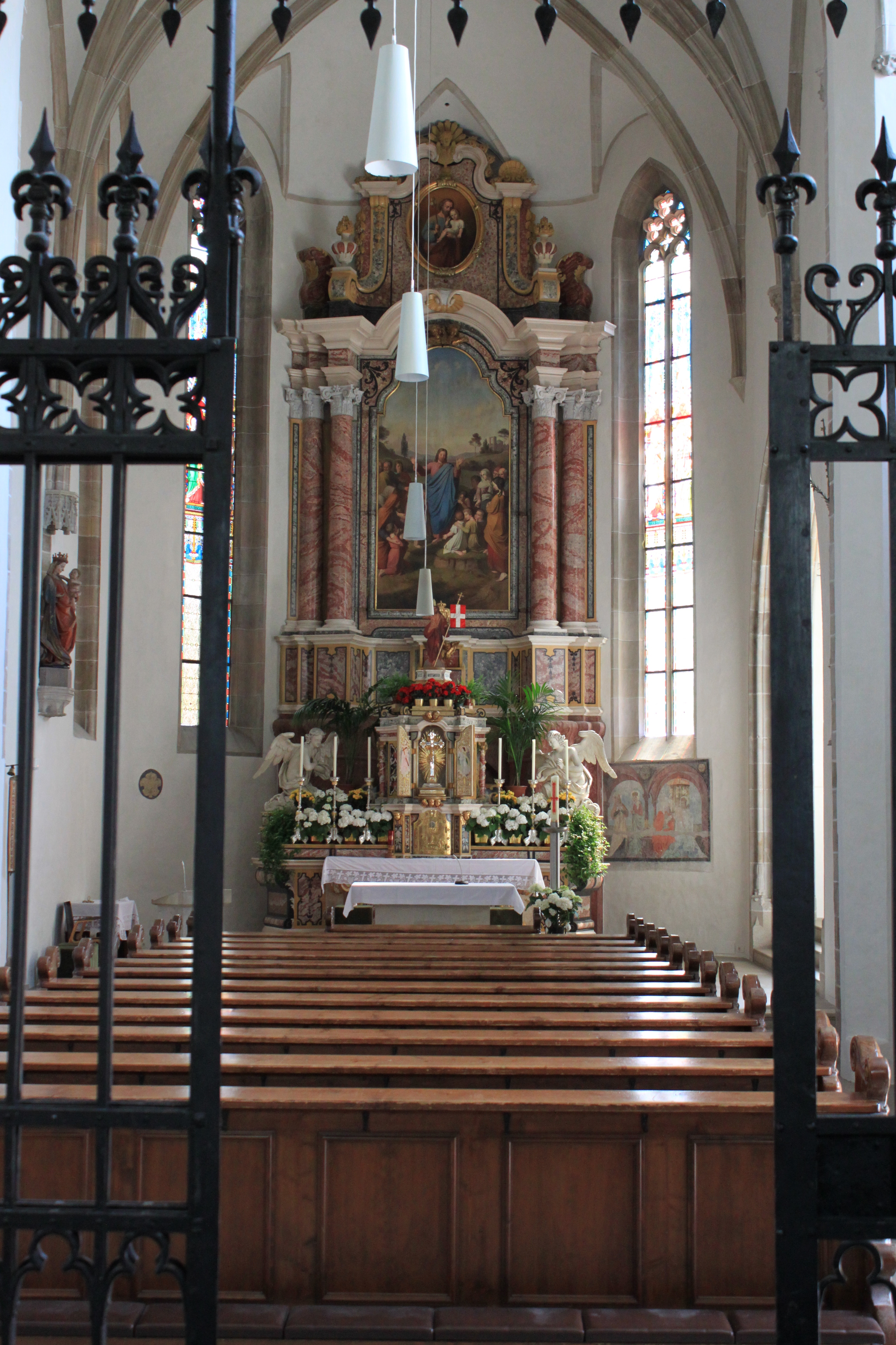 Old Parish Church in Gries Bozen Bolzano - nave and altar